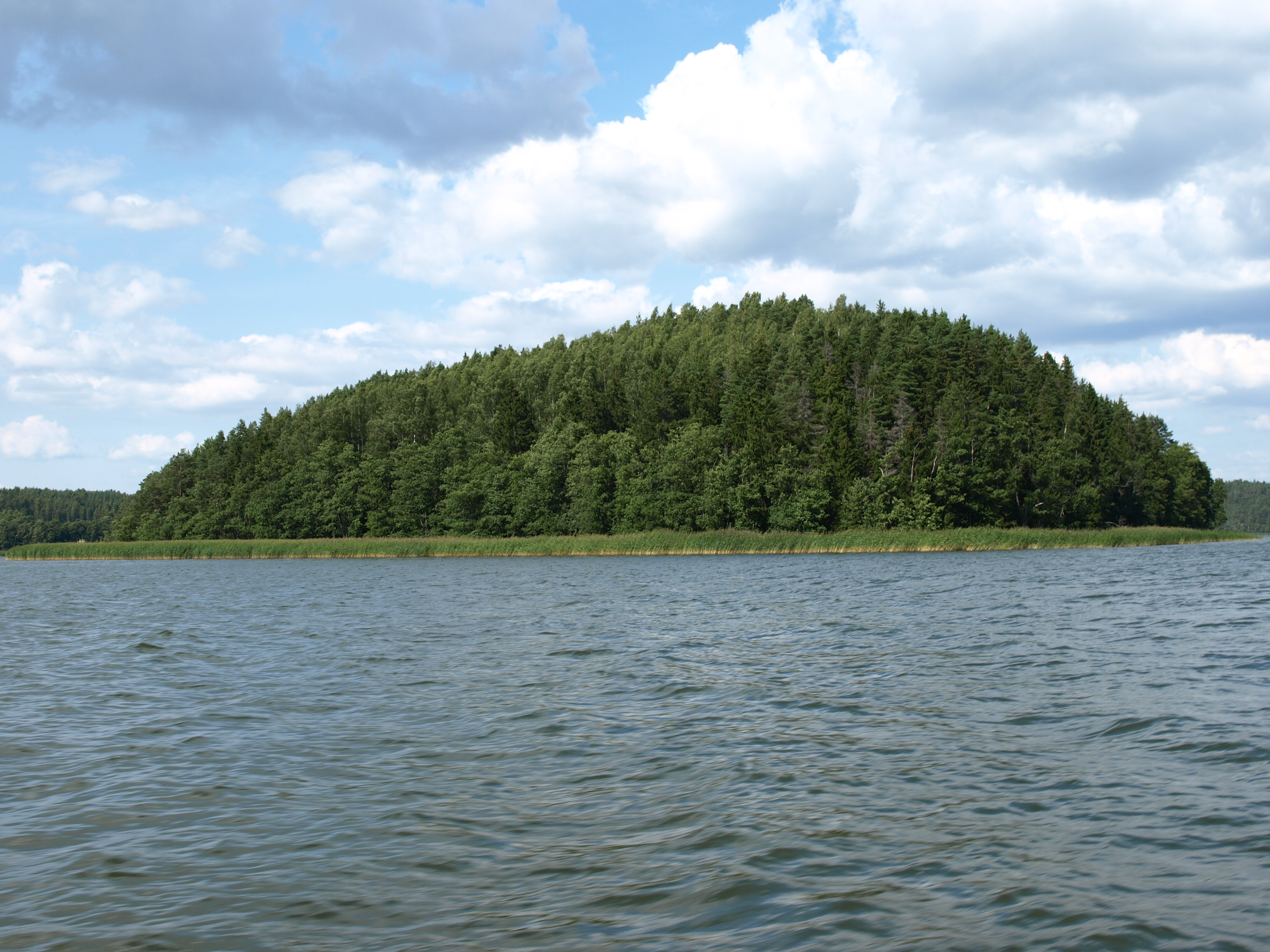 The Island of Kaisaari at Halikonlahti Bay in Salo, Finland